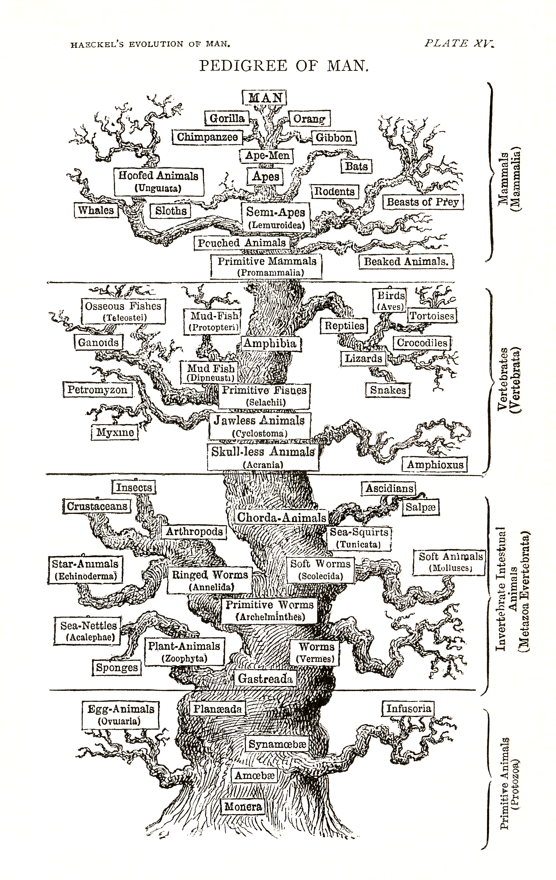 Ernst Haeckel's "Pedigree of Man" Illustration, in English